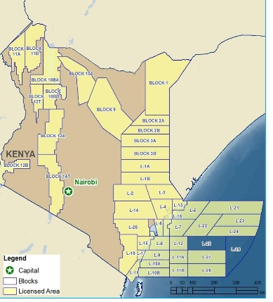 Map